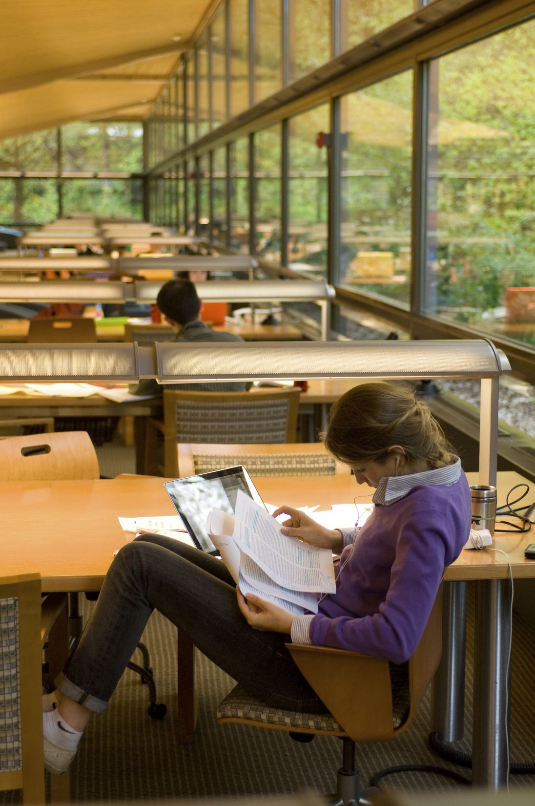 Clinis and practical skills programs are housed in Wood Hall at Lewis & Clark Law School.